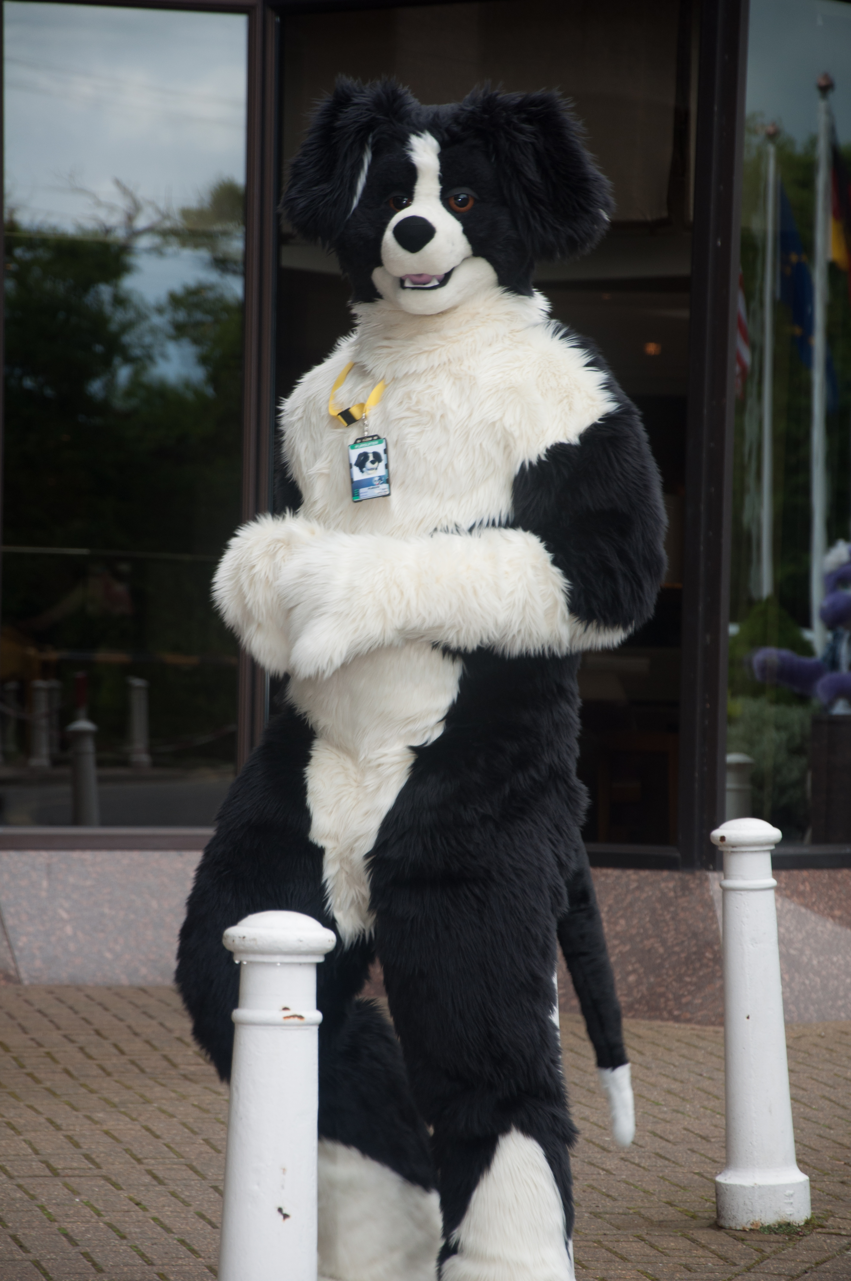 An example of a fursuit, taken at ConFuzzled 2014.